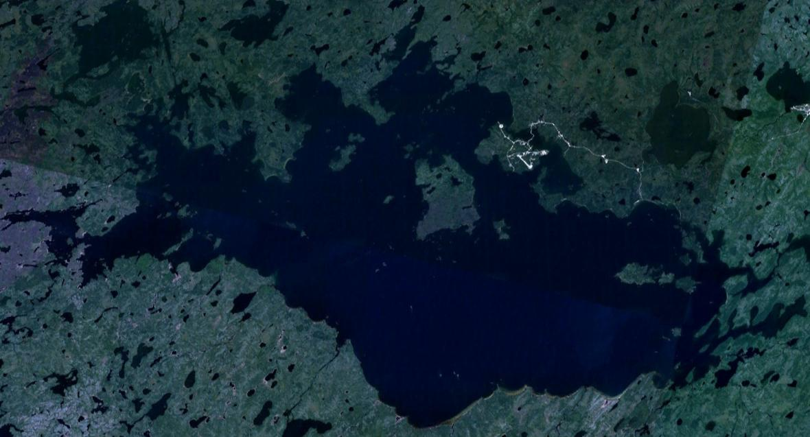 Satellite photo Rainy Lake based program World Wind (NASA)